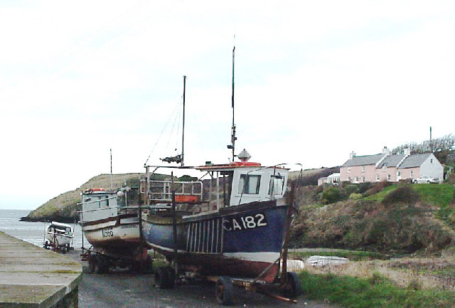 Fishing boats at Abercastle. Sadly there are very few working boats left in this area now.